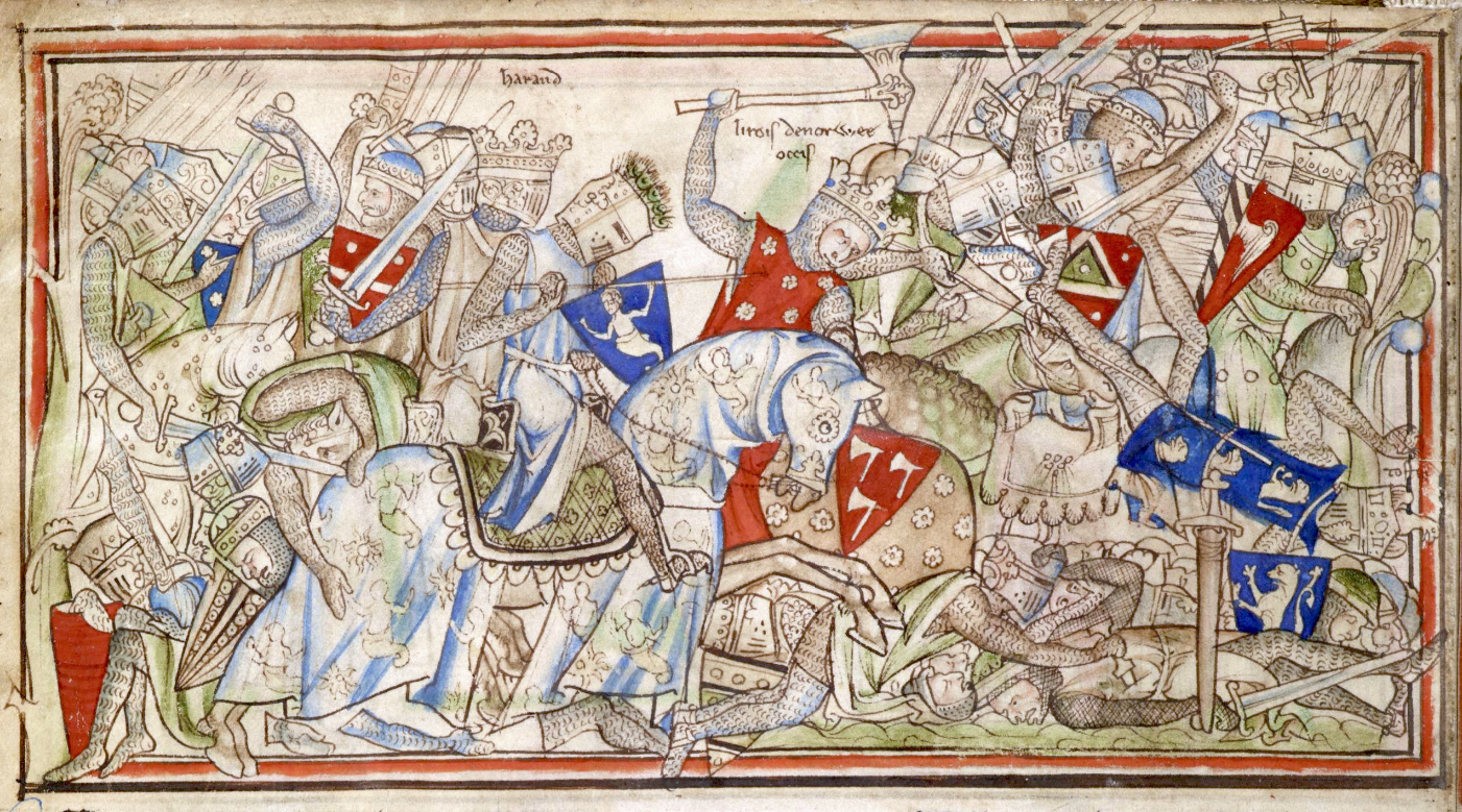 The Battle of Stamford Bridge, from The Life of King Edward the Confessor by Matthew Paris. 13th century. Cambridge, Cambridge University Library, MS Ee.3.59, f. 32v; MS produced c. 1250-60.